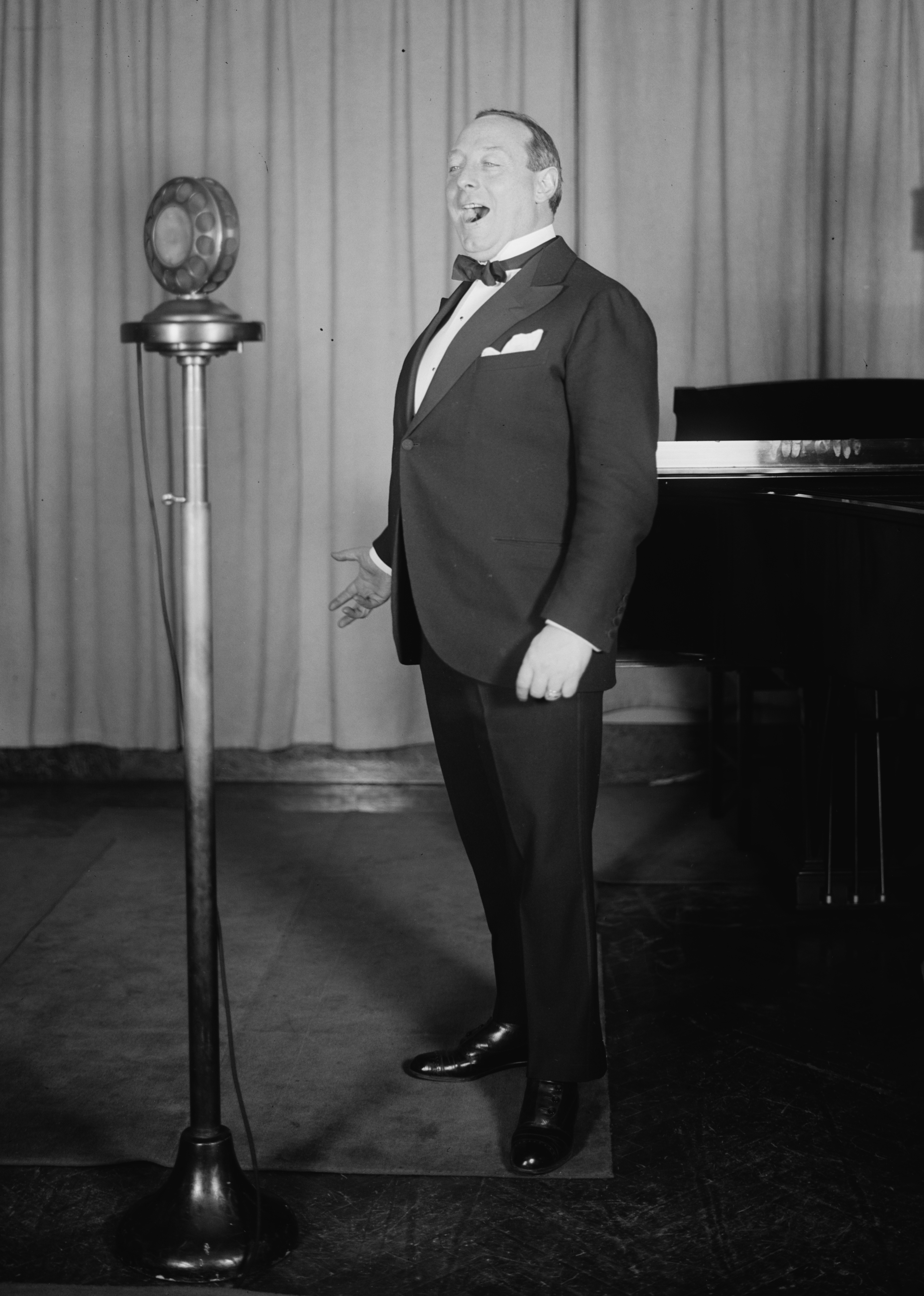 Opera baritone Giuseppi De Luca